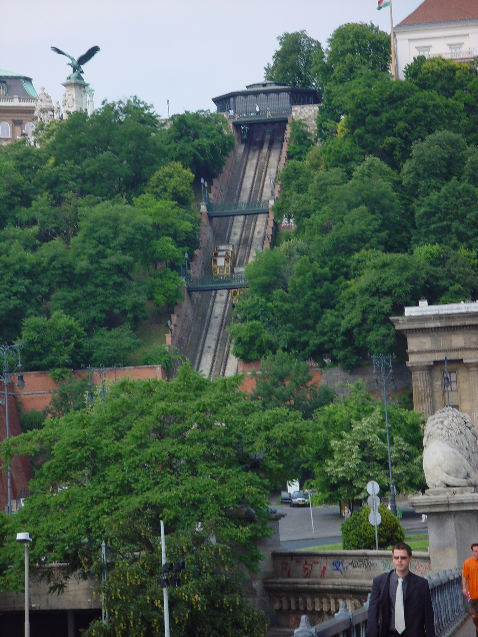 Budapest funicular